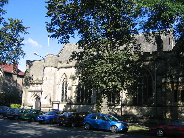 Holy Trinity Church, Beauchamp Avenue, Royal Leamington Spa. Holy Trinity was built as a proprietary chapel - a church without a parish by the Reverend John Craig, Vicar of Leamington. It opened on All Saints Day in 1847 and was inspired by portions of the Cathedral at Rouen. In 1865 a gallery was added at the west end. On the 16th November 1899, Holy Trinity finally became a parish church. The most recent major extension to the church began in 1913 when two adjacent houses were demolished to make way for a major extension to the Nave.